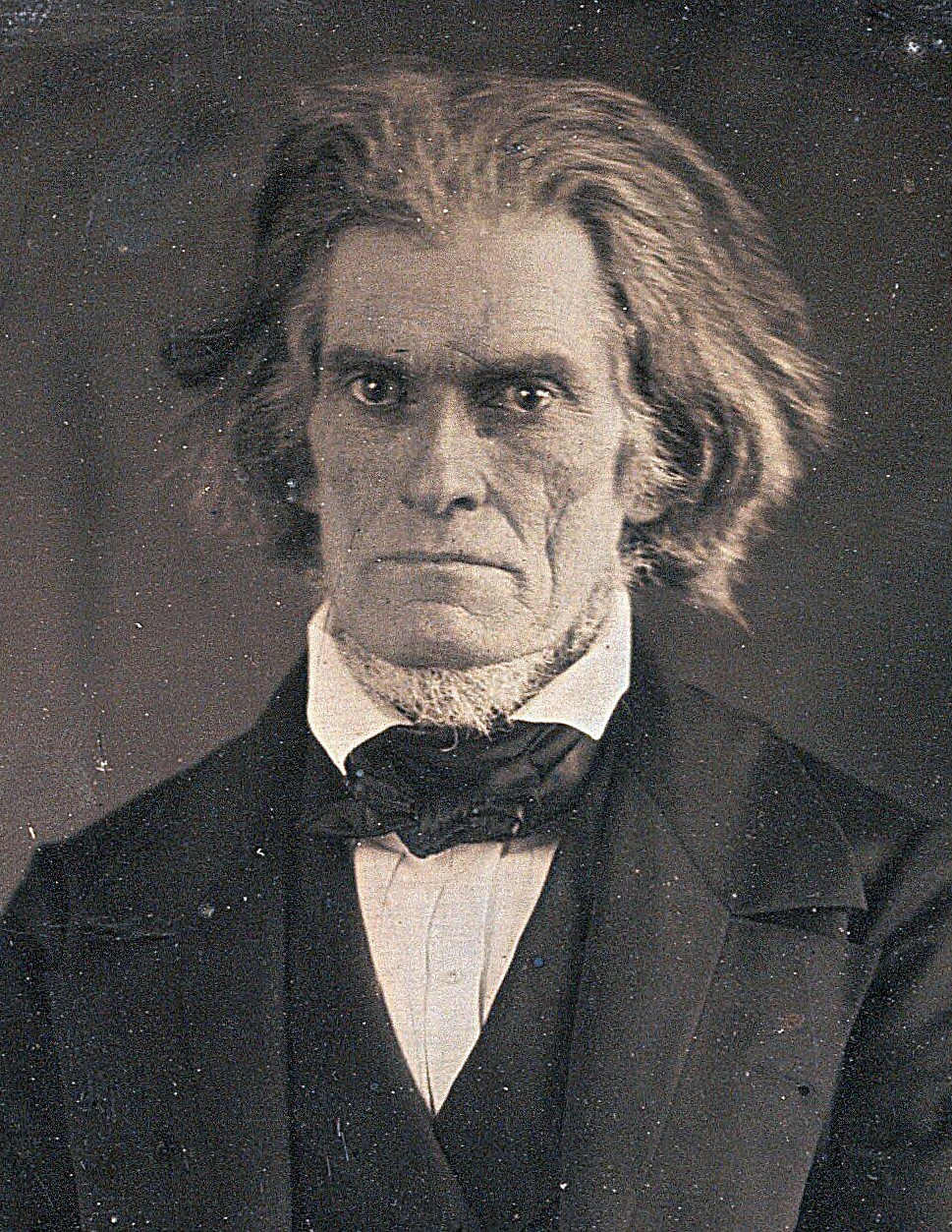 John C Calhoun daguerreotype